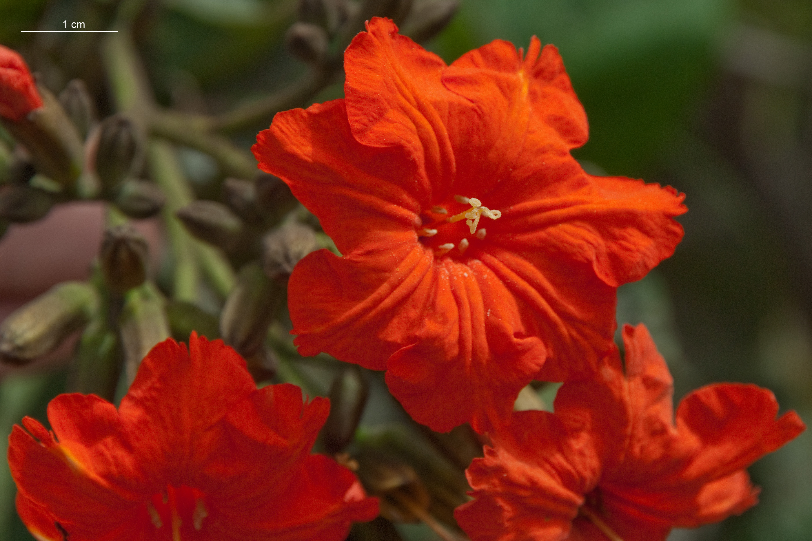 Close-up of Geiger tree flower (Dakar, Senegal, June 2013)